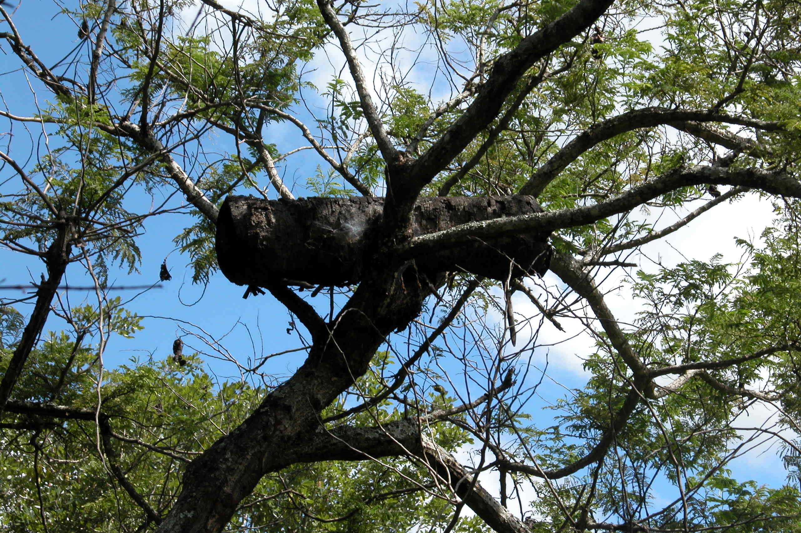 Bark hives can be made easily and cheaply by people living in forested areas in Mozambique are widely and successfully used by beekeepers throughout Africa.